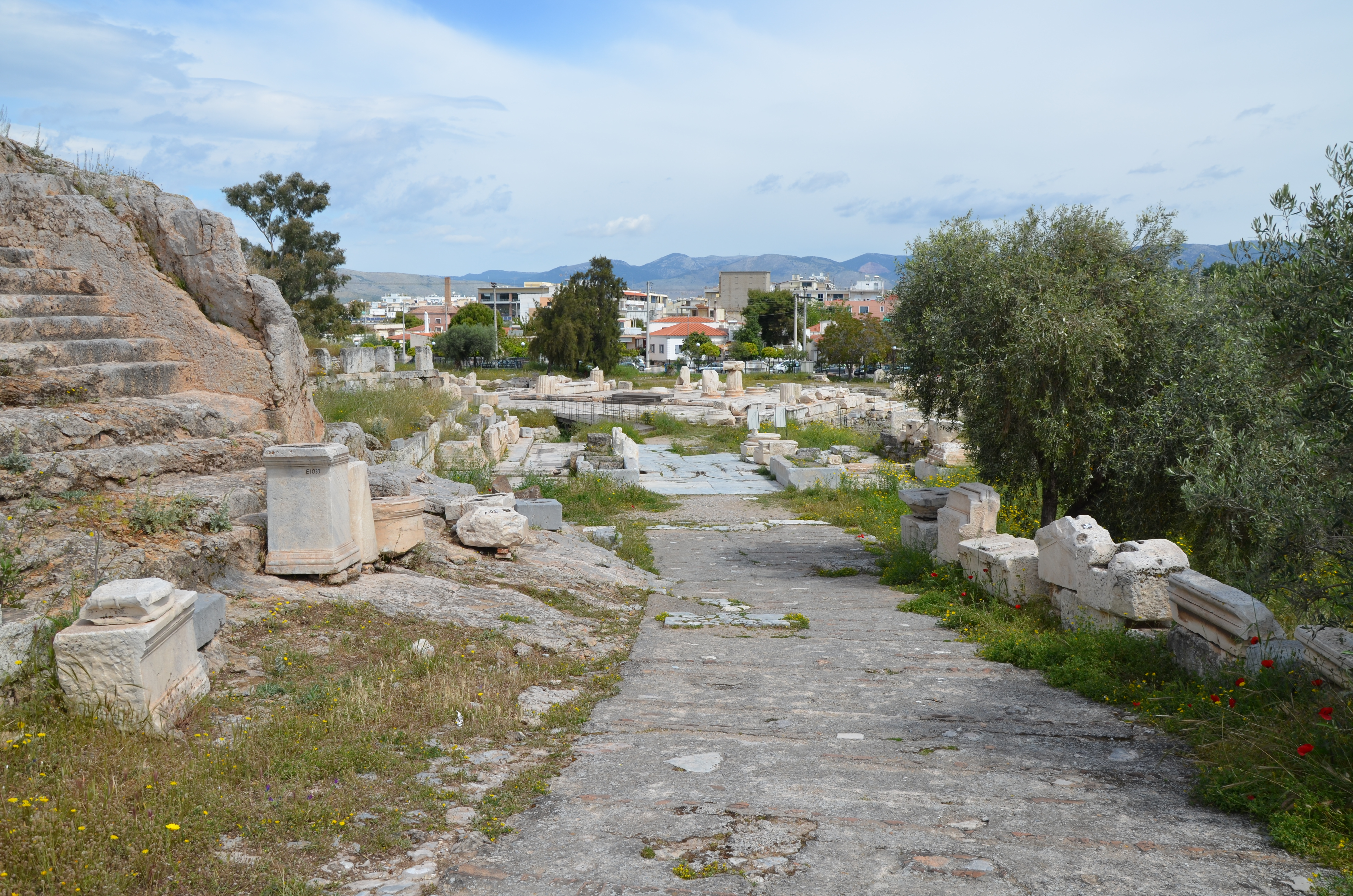 View of the Lesser Propylaea and the Greater Propylaea, Eleusis